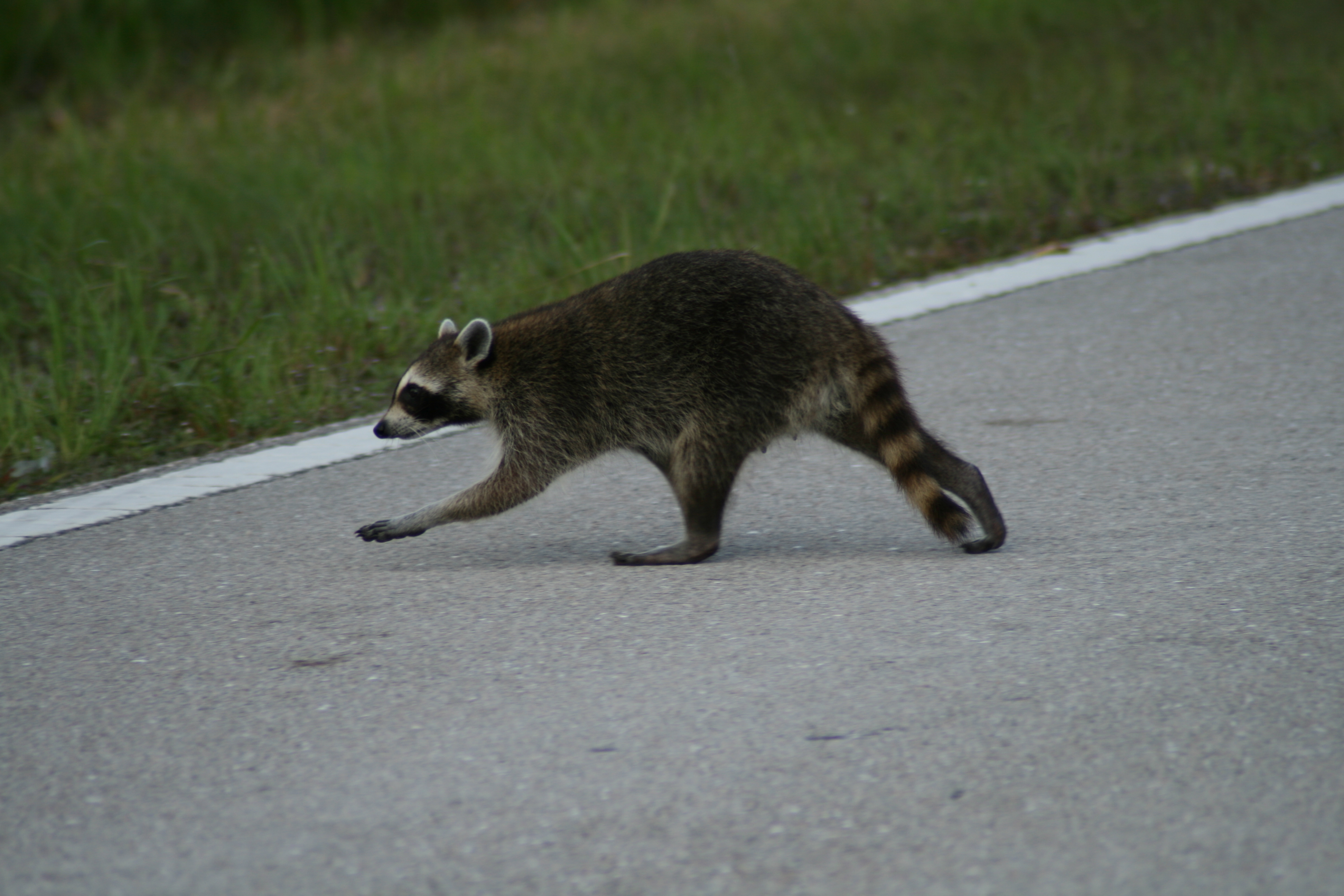 Racoon crossing a road in Loxahatchee nature refuge, Florida.